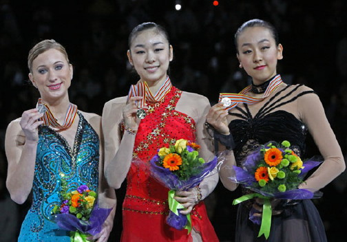 The ladies podium at the 2009 Four Continents Championships. From left: Joannie Rochette (2nd), Kim Yu-Na (1st), Mao Asada (3rd)